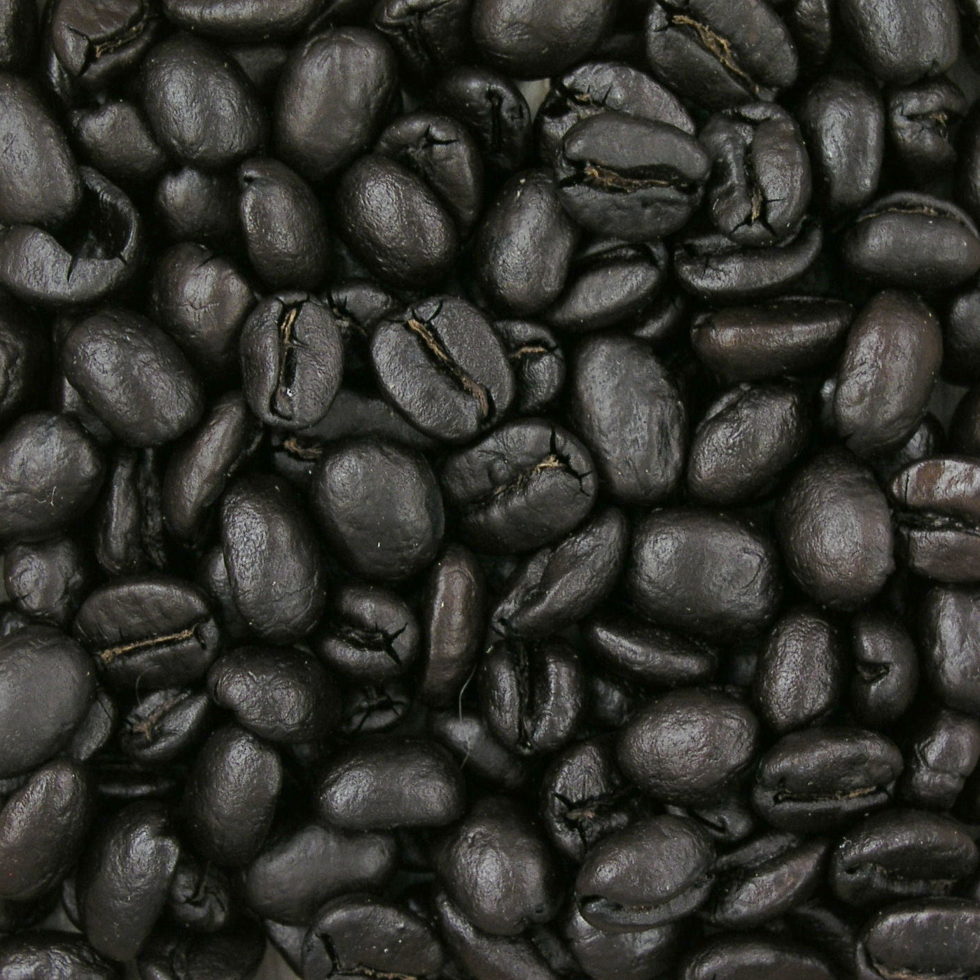 Typical Brazilian coffee at 470° F, or Italian roast.